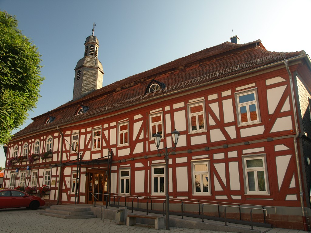 Former town hall of Ziegenhain, built in 1842. It served as town hall of fortress and suburb (called Weichhaus), meeting house and school building of the suburb.